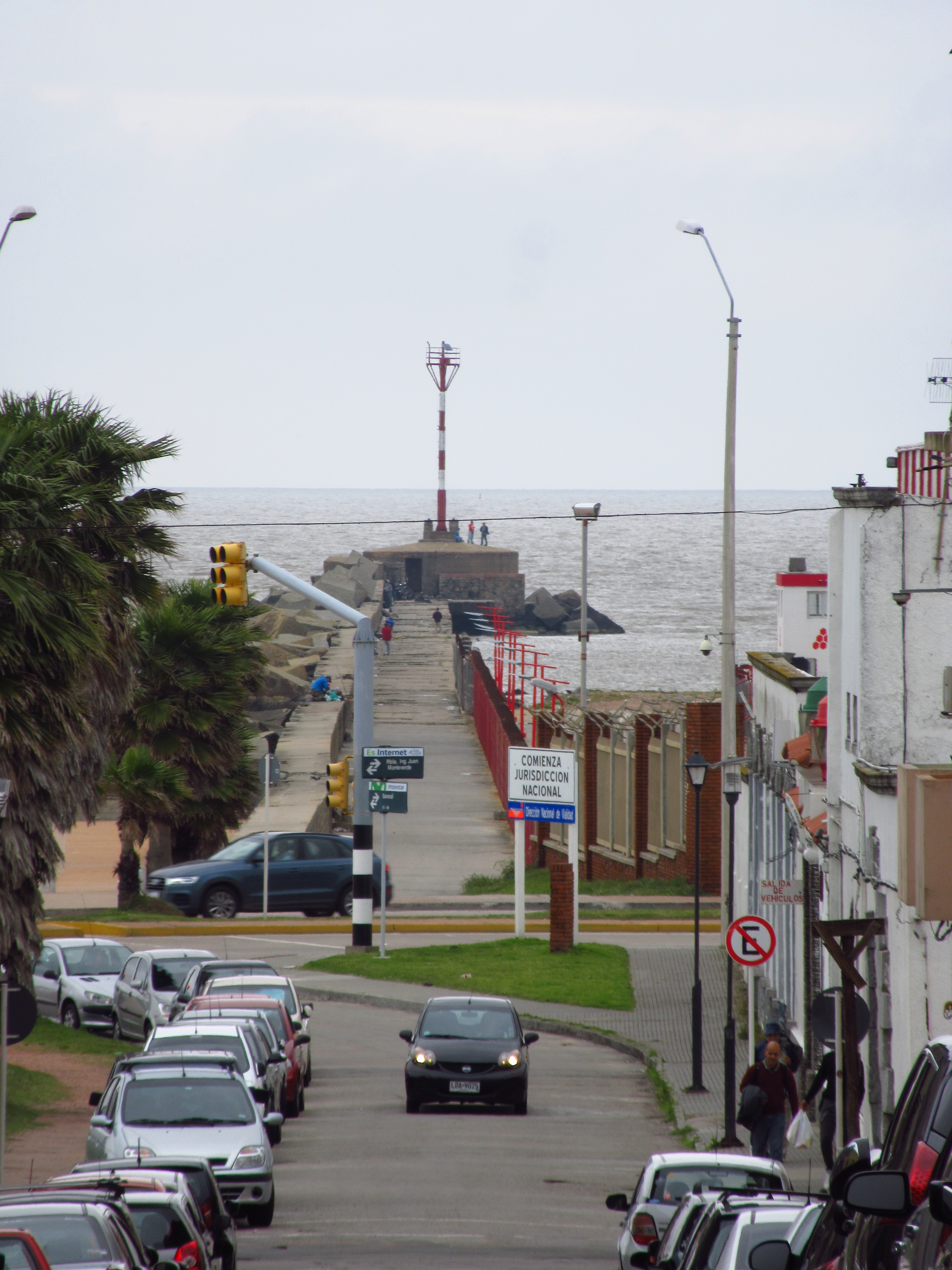 Montevideo